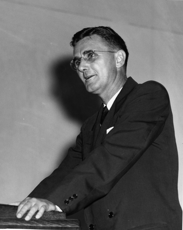 Photo of J. Wayne Reitz, President of the University of Florida